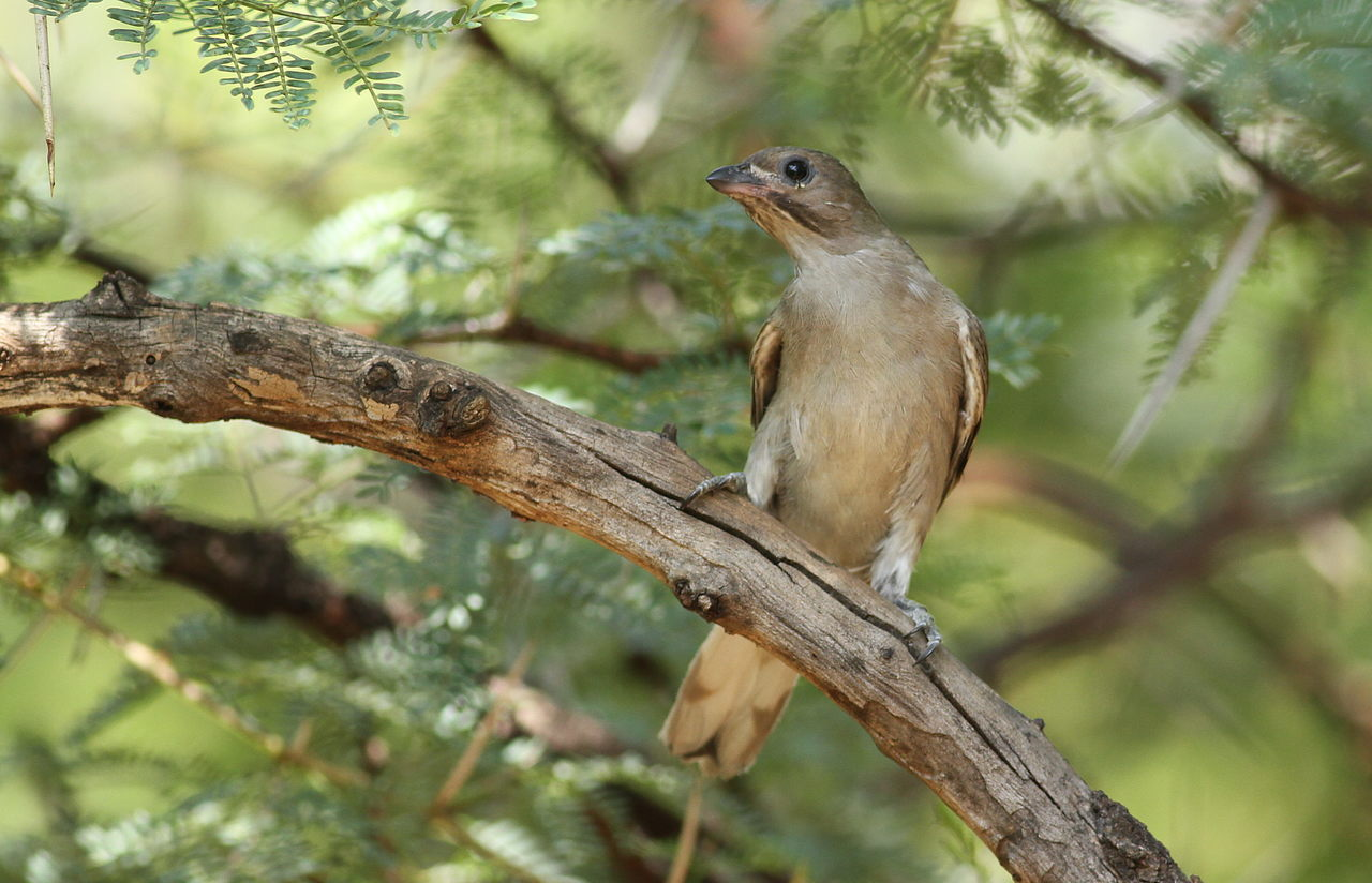 Lesser honeyguide, Indicator minor, at Pilanesberg National Park, South Africa